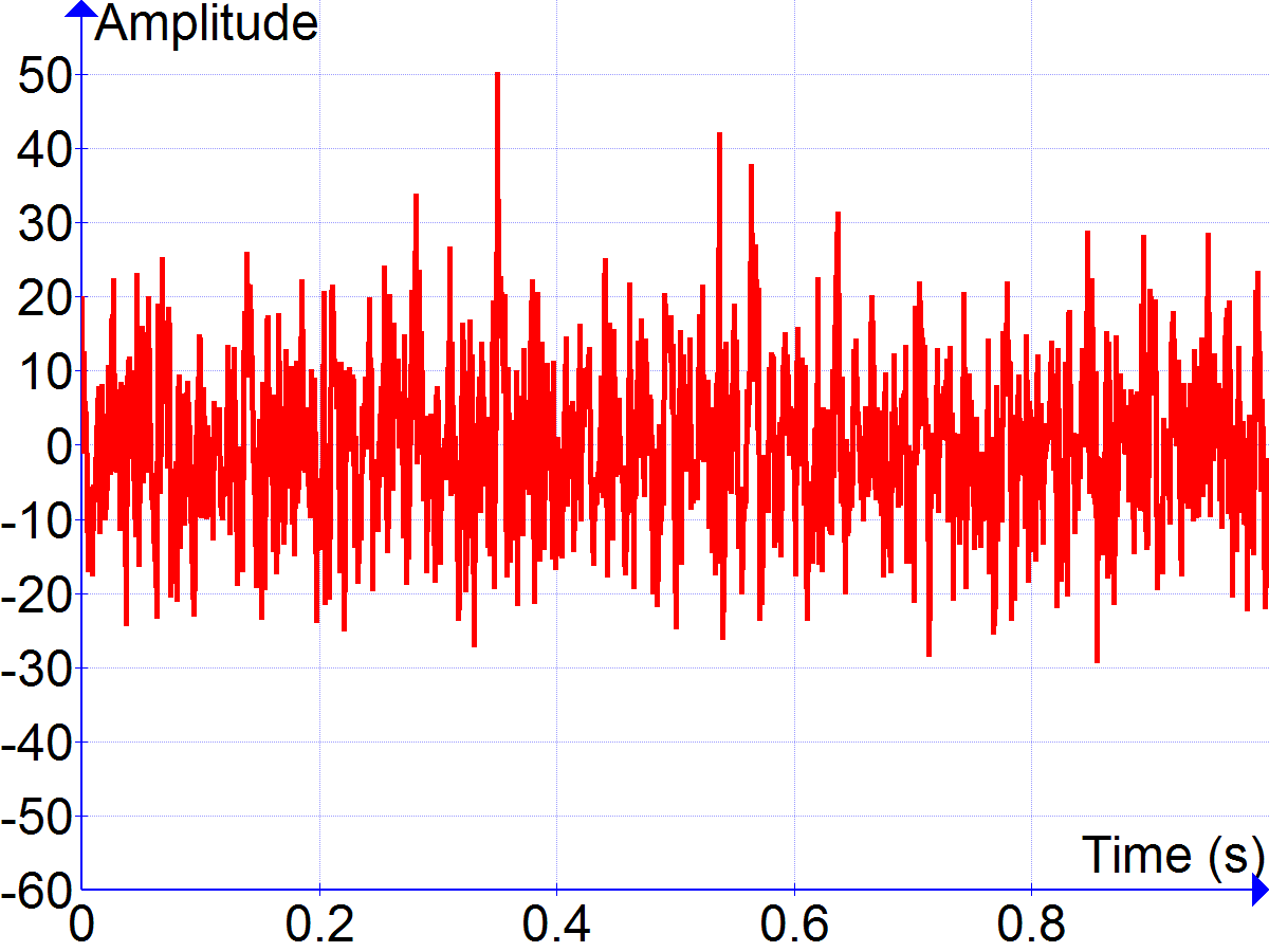 Cosine Series Plus Noise